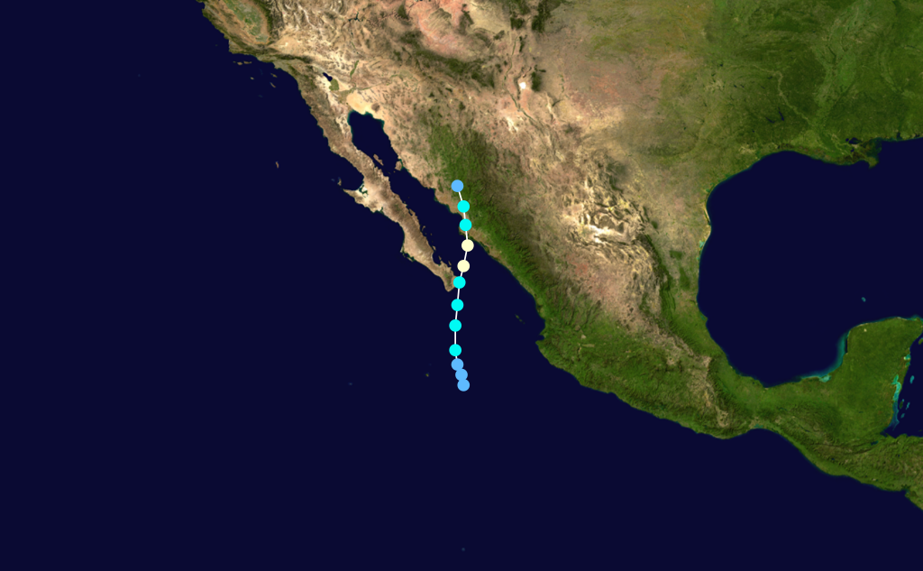 Hurricane Isis (1998) track. Uses the color scheme from the Saffir-Simpson Hurricane Scale.